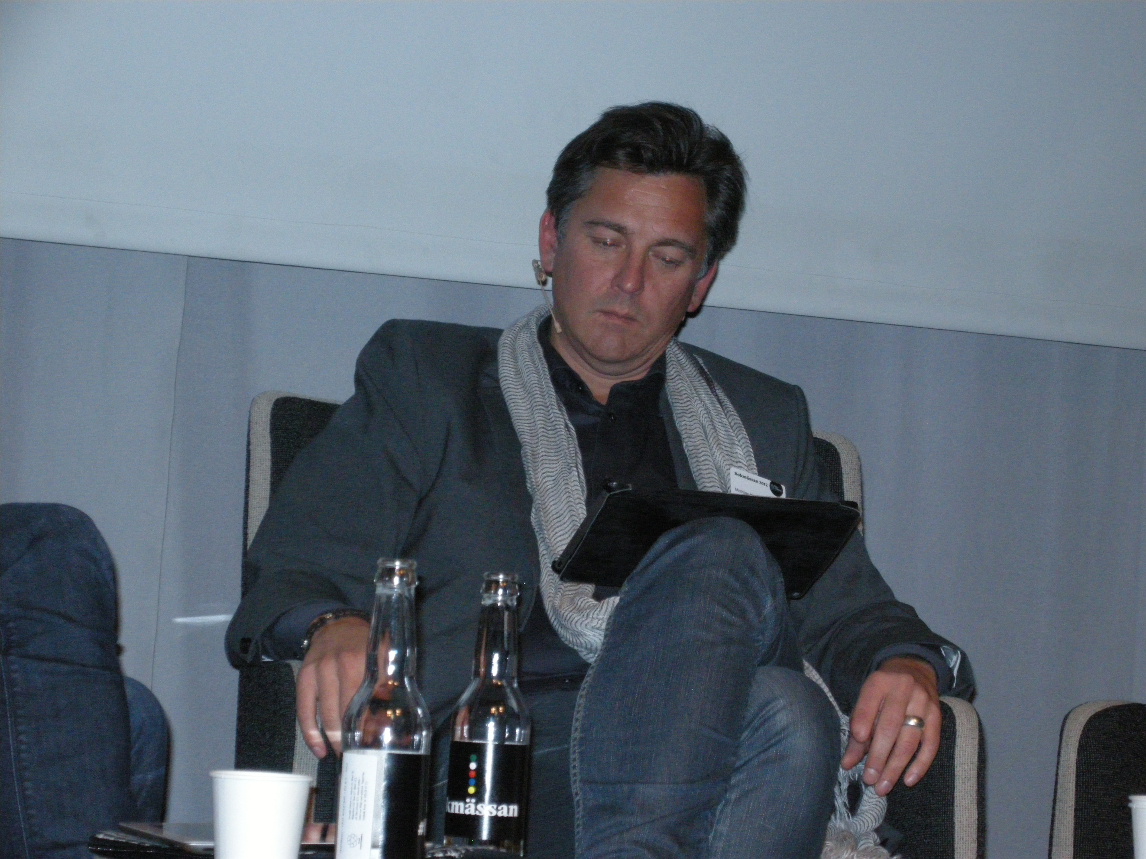 Mathias Klang at Göteborg Book Fair 2012